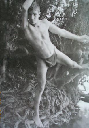 Frederick Rolfe (1860-1913) a.k.a "Baron Corvo", portrait of Tito Biondi, Rome, circa 1890.